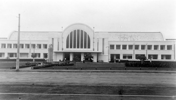 Railwaystation in Batavia-kota, Java